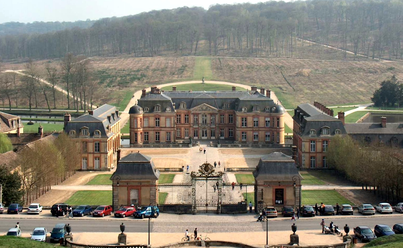 Château de Dampierre in Dampierre-en-Yvelines, north-western aspect